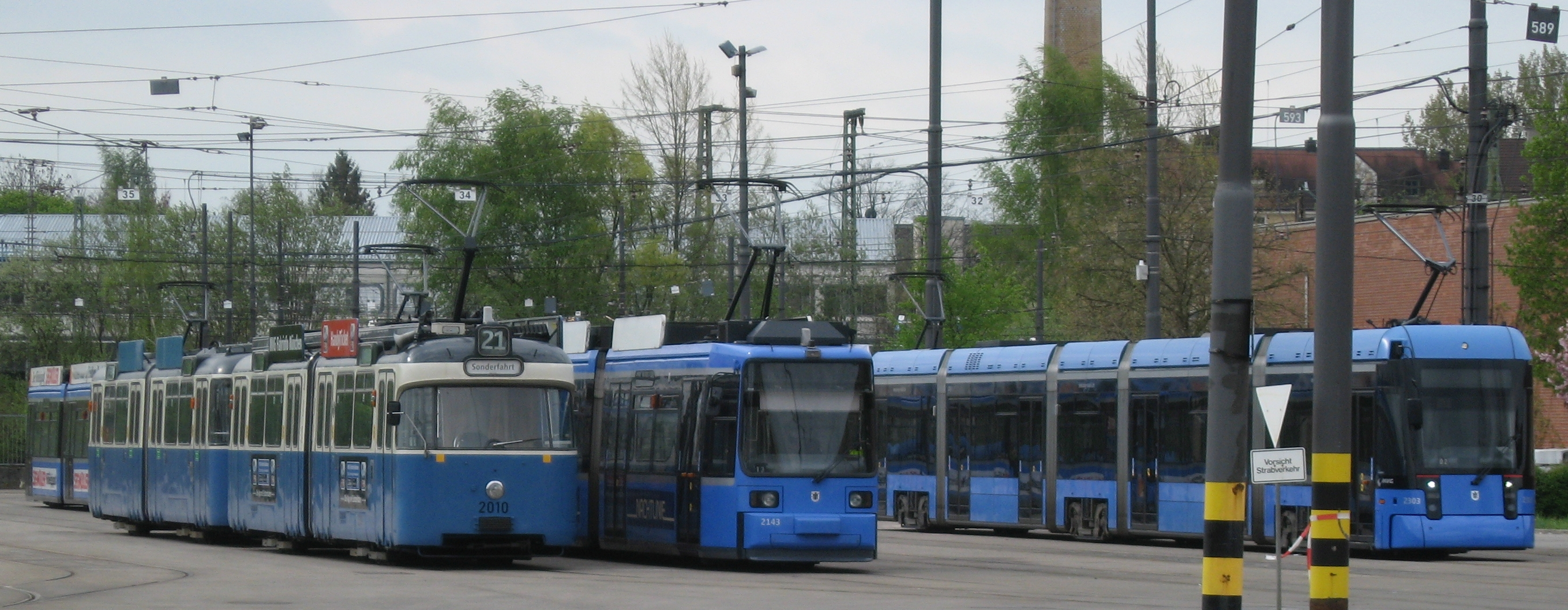 Classes P, R and S of Tramway Munich at depot Einsteinstraße in April 2014